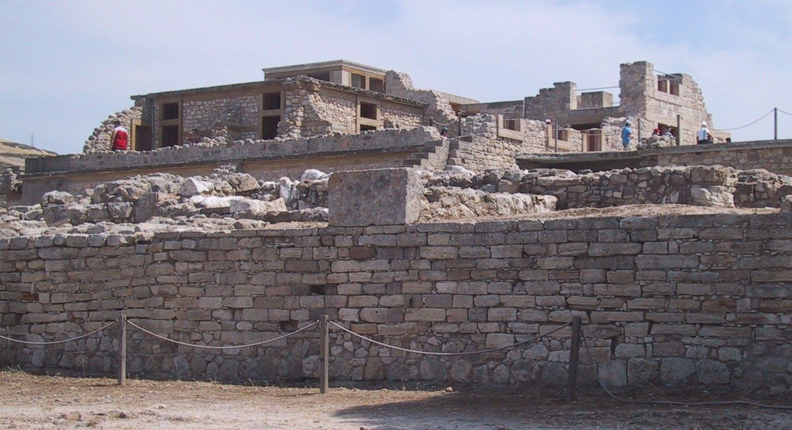 Palace of Knossus, overall view.